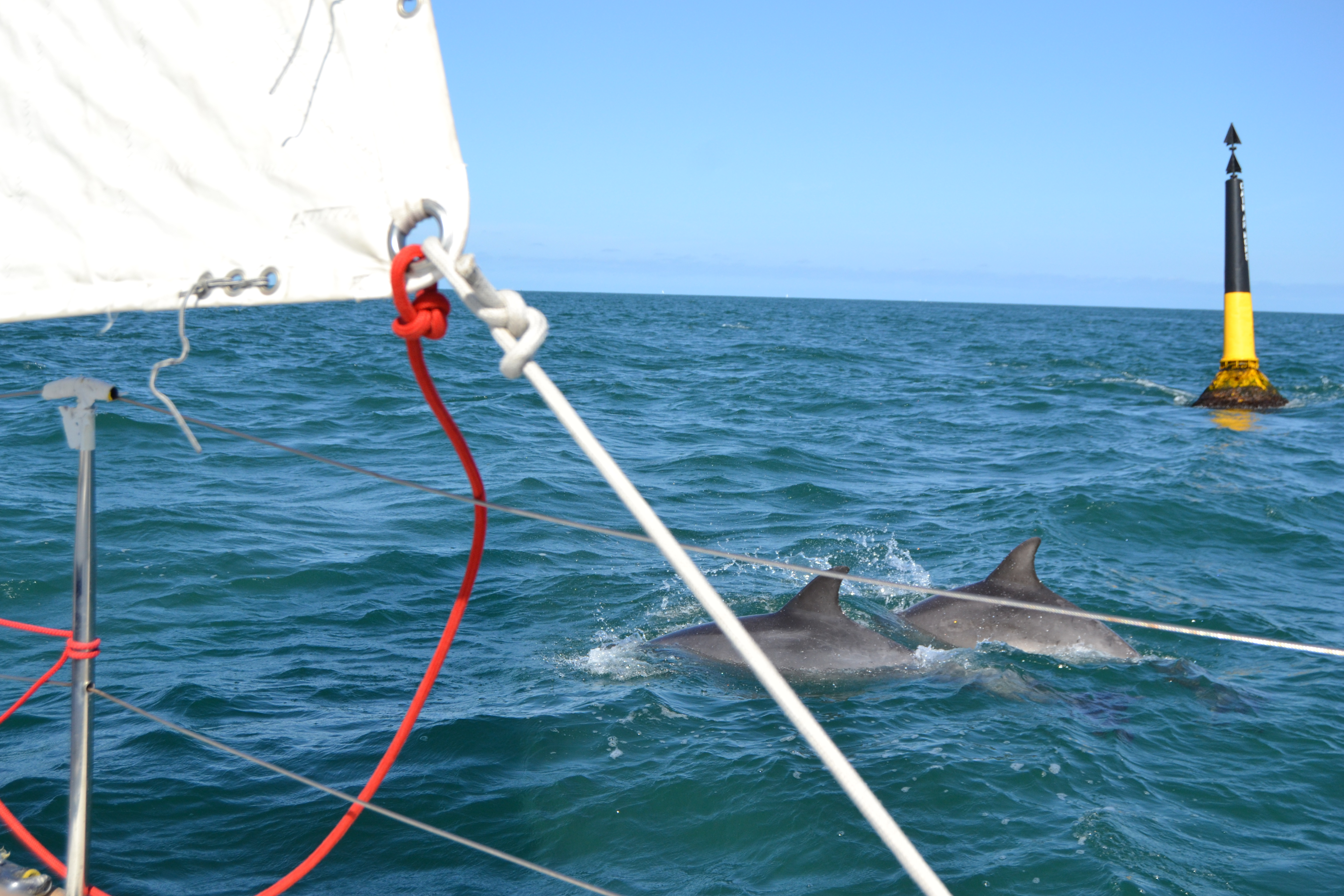 Dolphins by the Island of Bréat in Bretagne, France